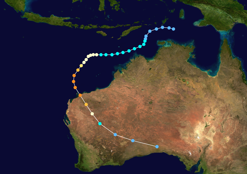 Cyclone Olivia (1996) track. Uses the color scheme from the Saffir-Simpson Hurricane Scale.